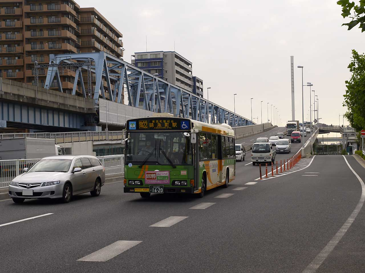 Toei Bus "Nishiki 22" route, through Kiyosuna Ohashi Bridge. Model: Hino Rainbow KL-HR1JNEE License plate: TKA200 KA1620